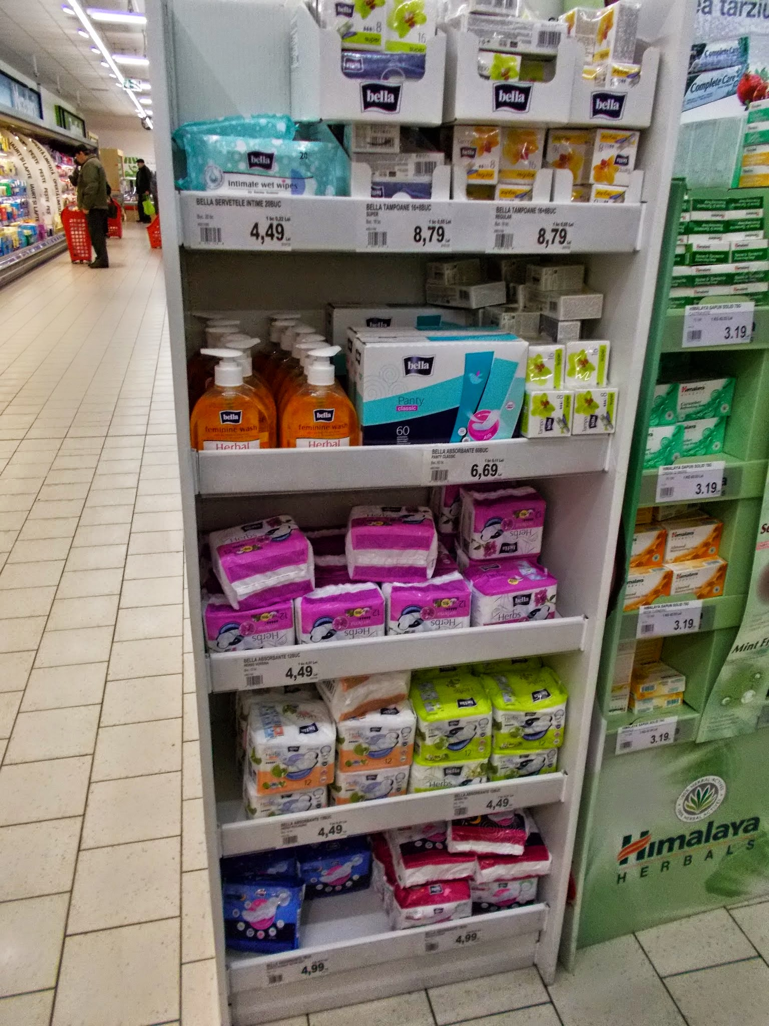 bella